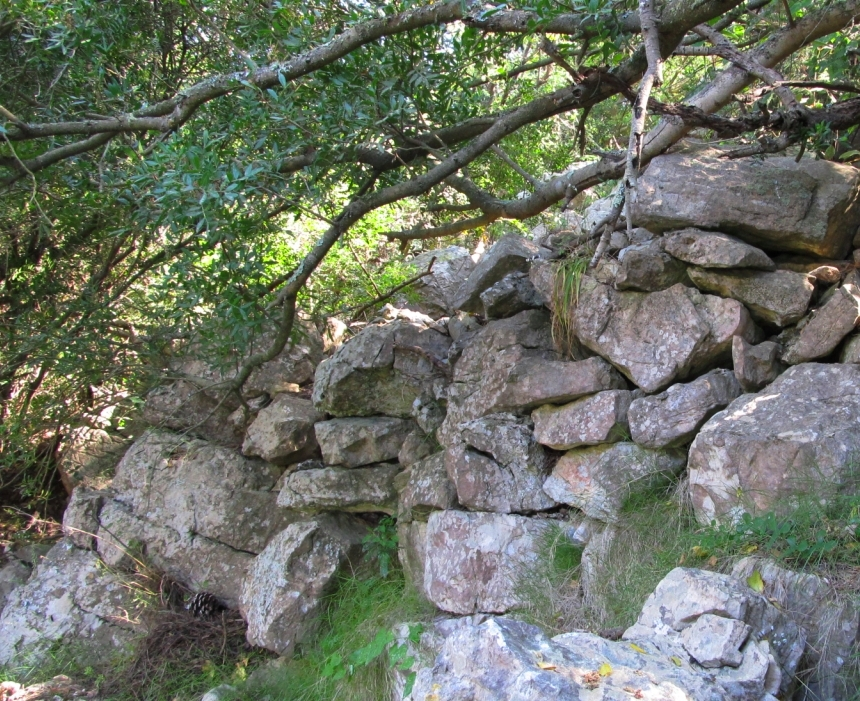 Quire - Isola d'Elba